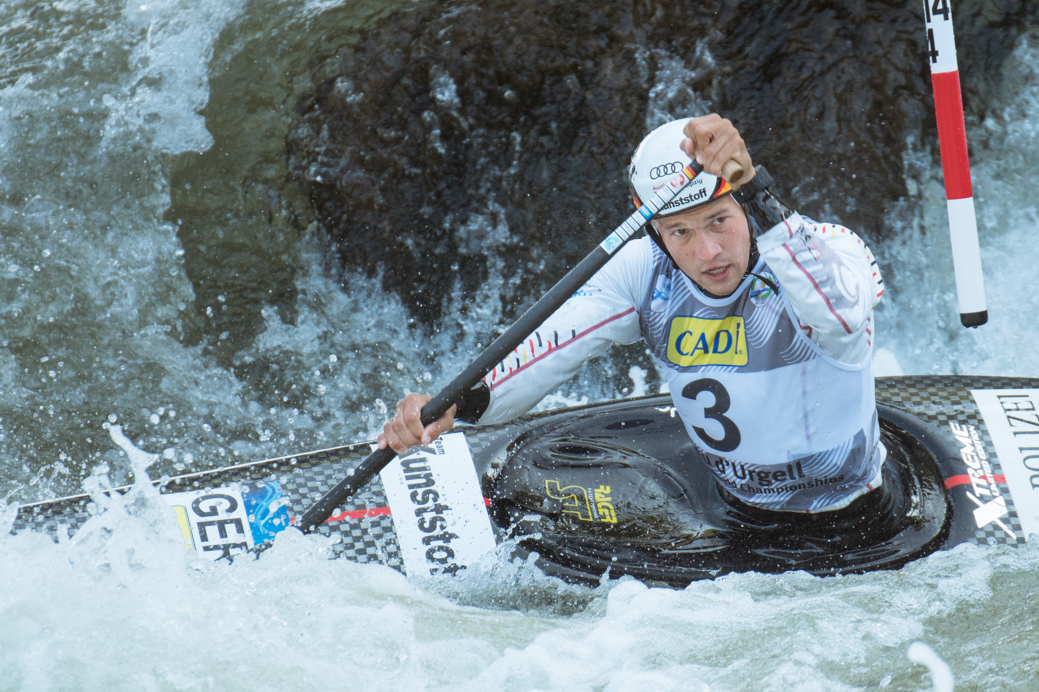 Franz Anton during the 2019 Canoe Slalom World Championships in La Seu d'Urgell, Spain.